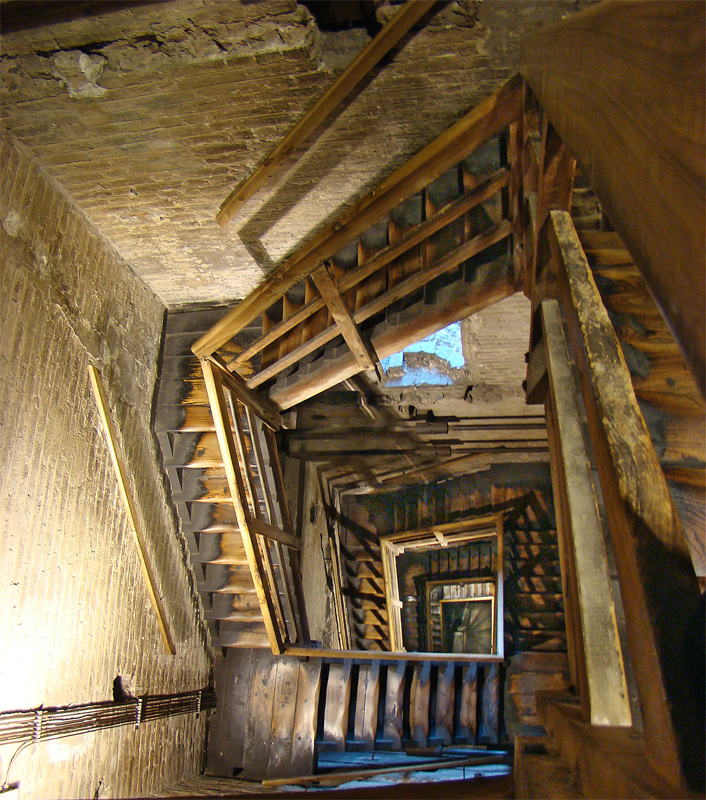 Bologna, Emilia-Romagna, Italy. Inside the Asinelli Tower.